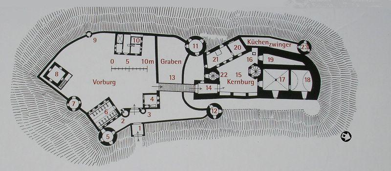 Alttrauchburg Castle near Weitnau, Bavaria, Germany. Ground plan from information board at the castle. Own photo.